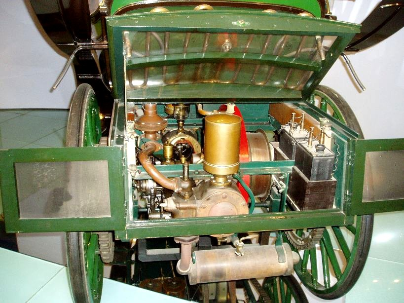 Engine Benz in car Präsident - Replica (1977) Photo: Ondrej Ertl (2006), Tatra factory museum Kopřivnice